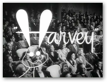 Cropped screenshot of the film Harvey